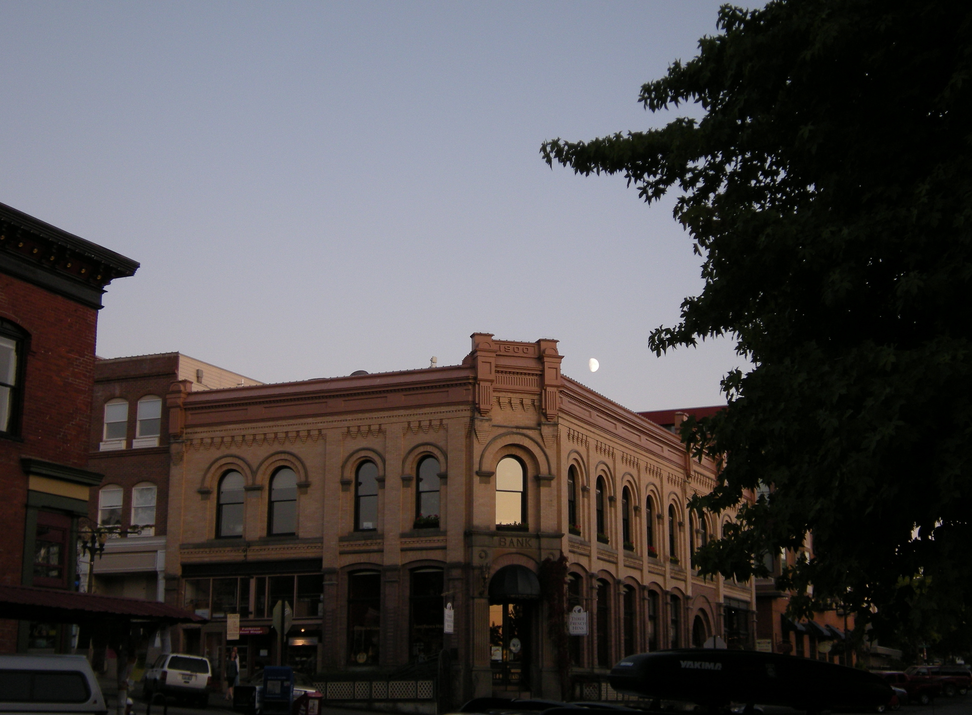 Former bank building (Nelson Block) at dusk, historic Fairhaven district, Bellingham, Washington.